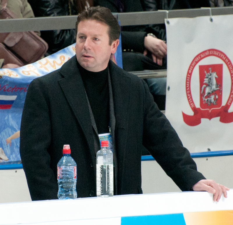 Lee Barkell (?) at the 2011 Cup of Russia, short program.